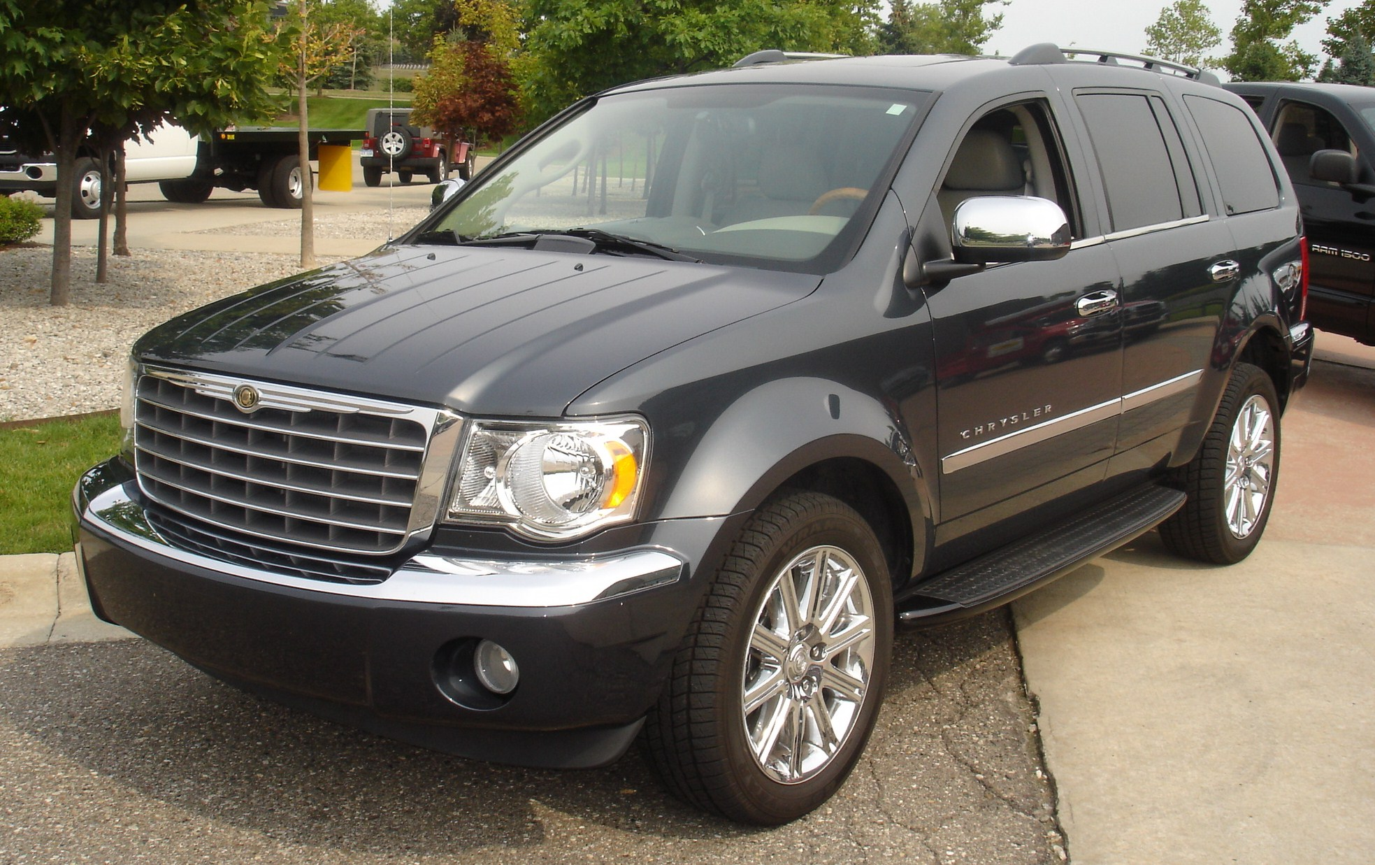 2008 Chrysler Aspen